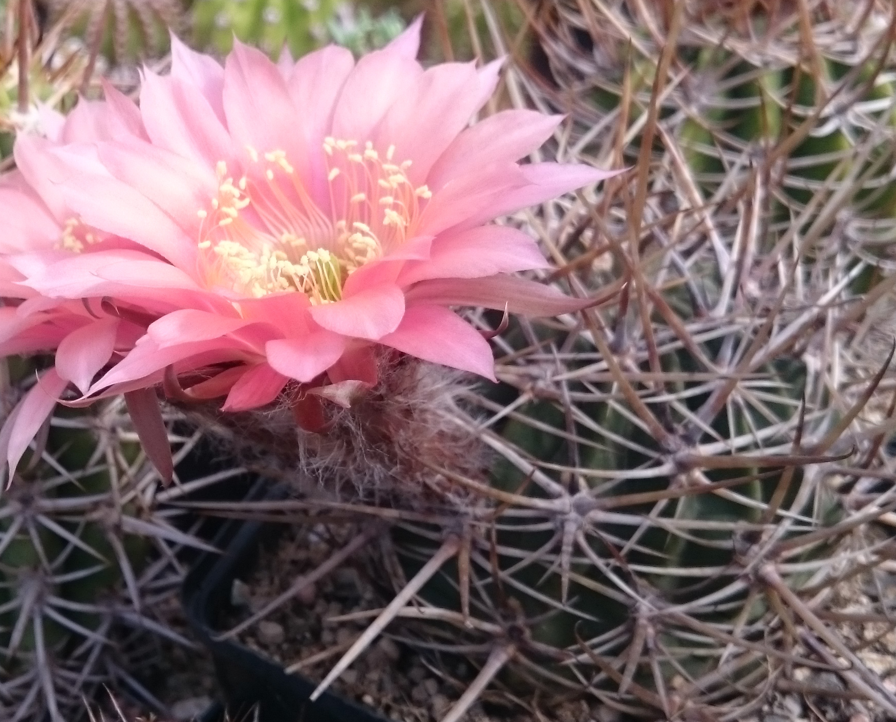 Echinopsis ferox mit rosa Blüte